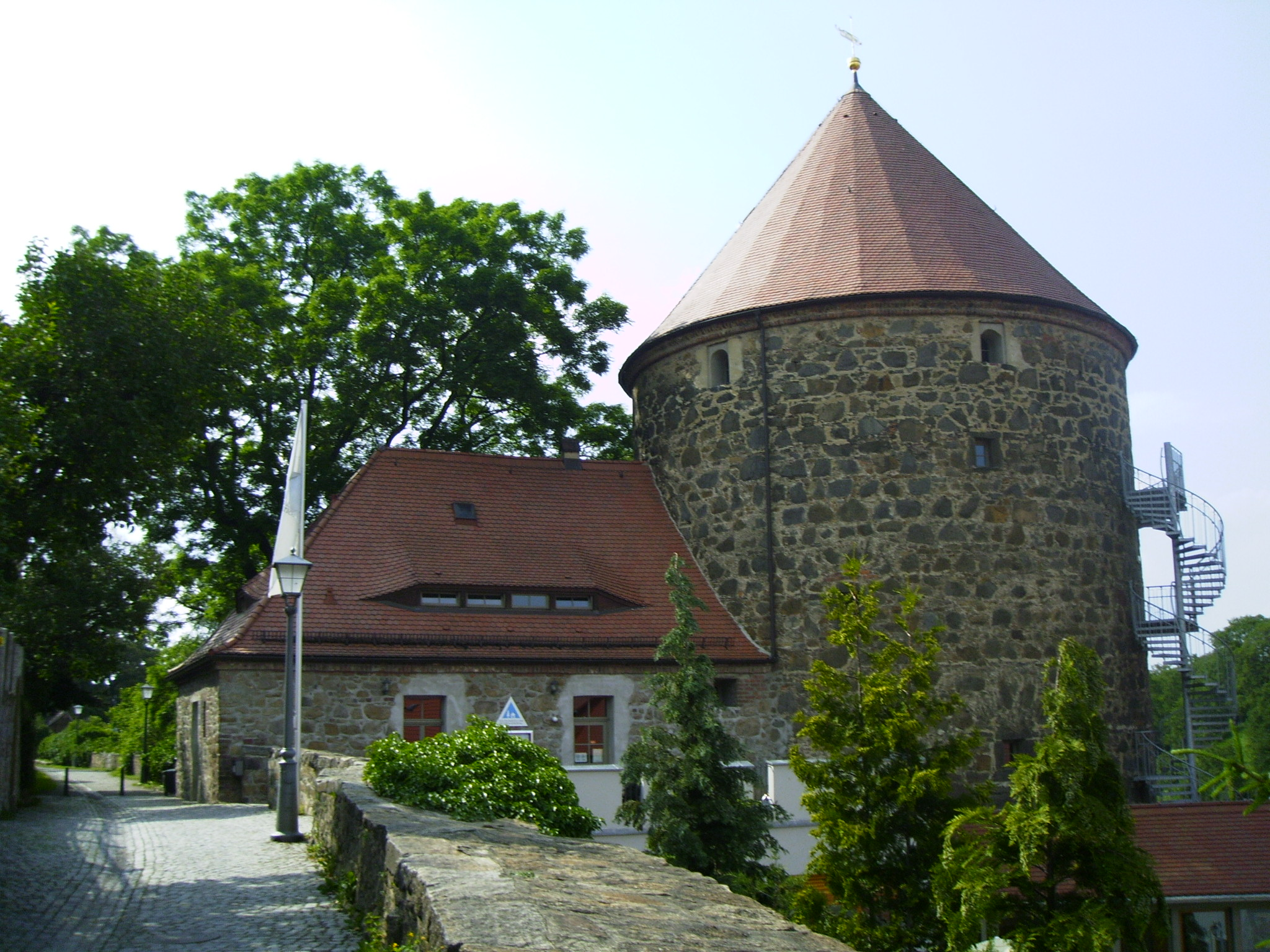 Bautzen; Gerberbastei tower